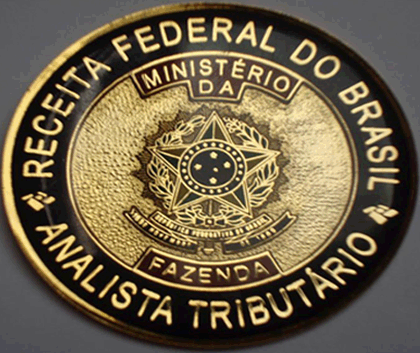 Badge from a Brazilian RFB Career